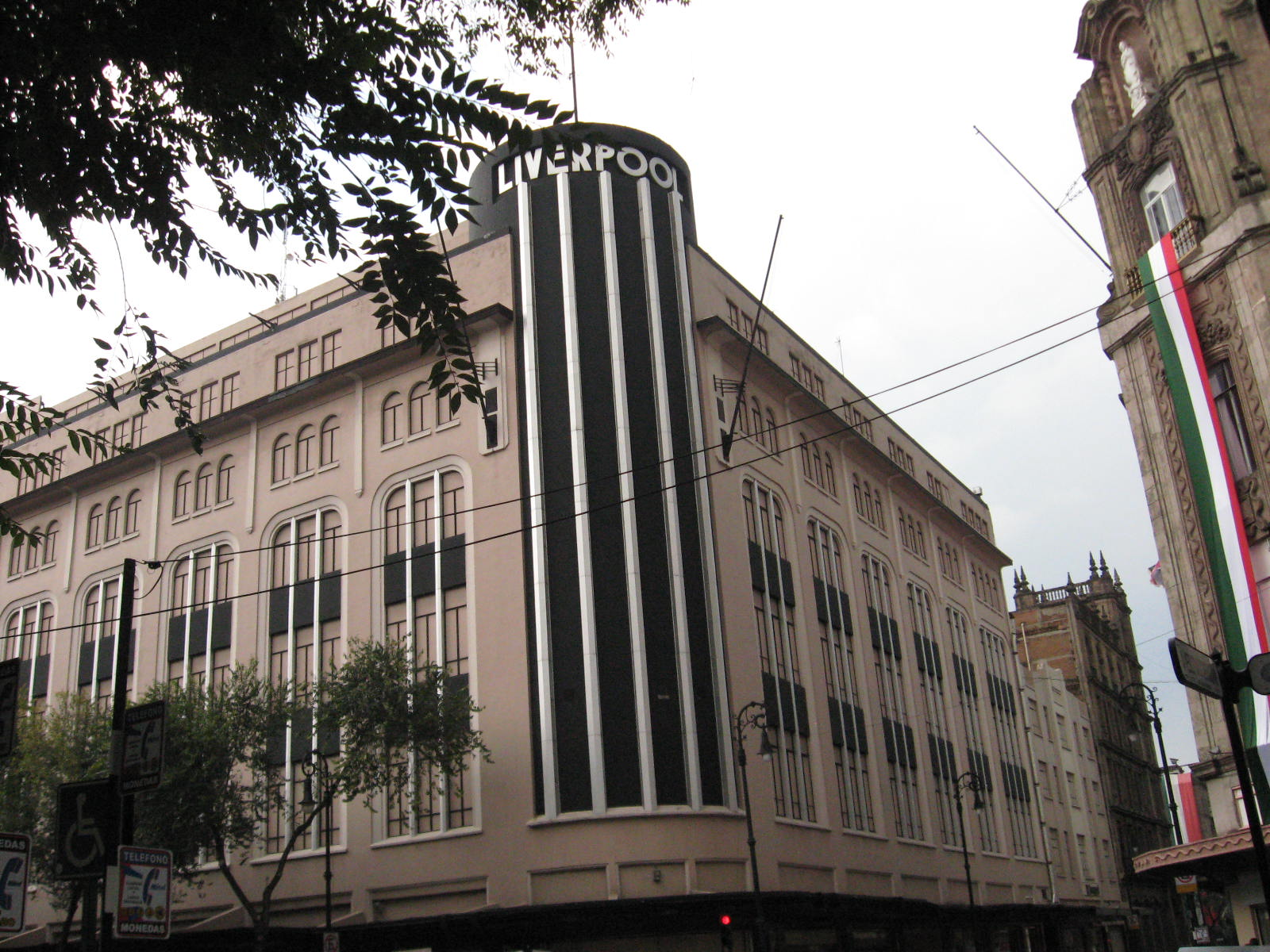 The original Liverpool store located at Carranza and 20 de noviembre streets in the historic center of Mexico City, just south of the main plaza